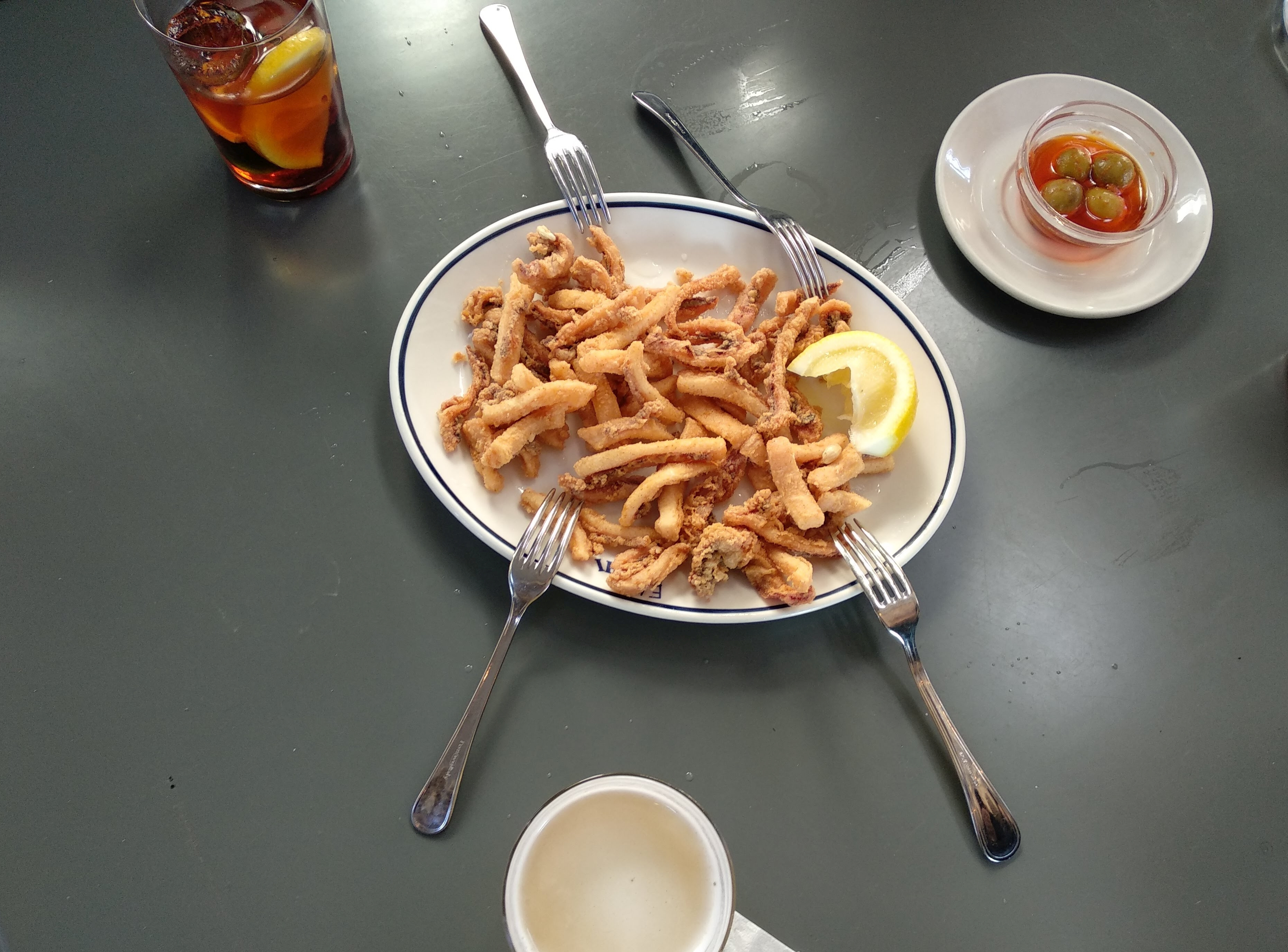 Ration of squid rabas (rejos de pota). Served as an aperitif on a terrace in Santander (Cantabria, Spain).